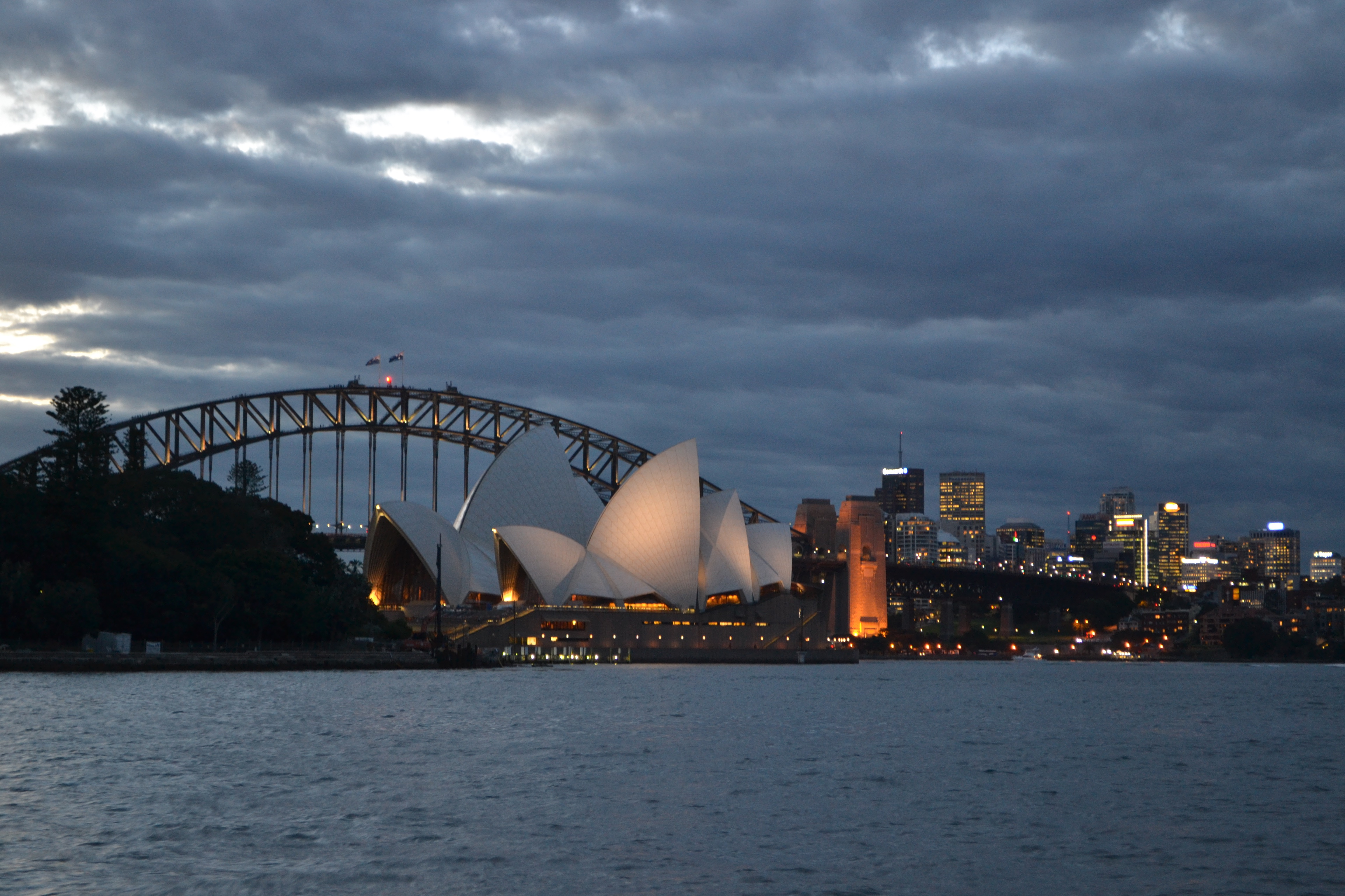 Teatro dell' Opera di sera , Sydney, 2012